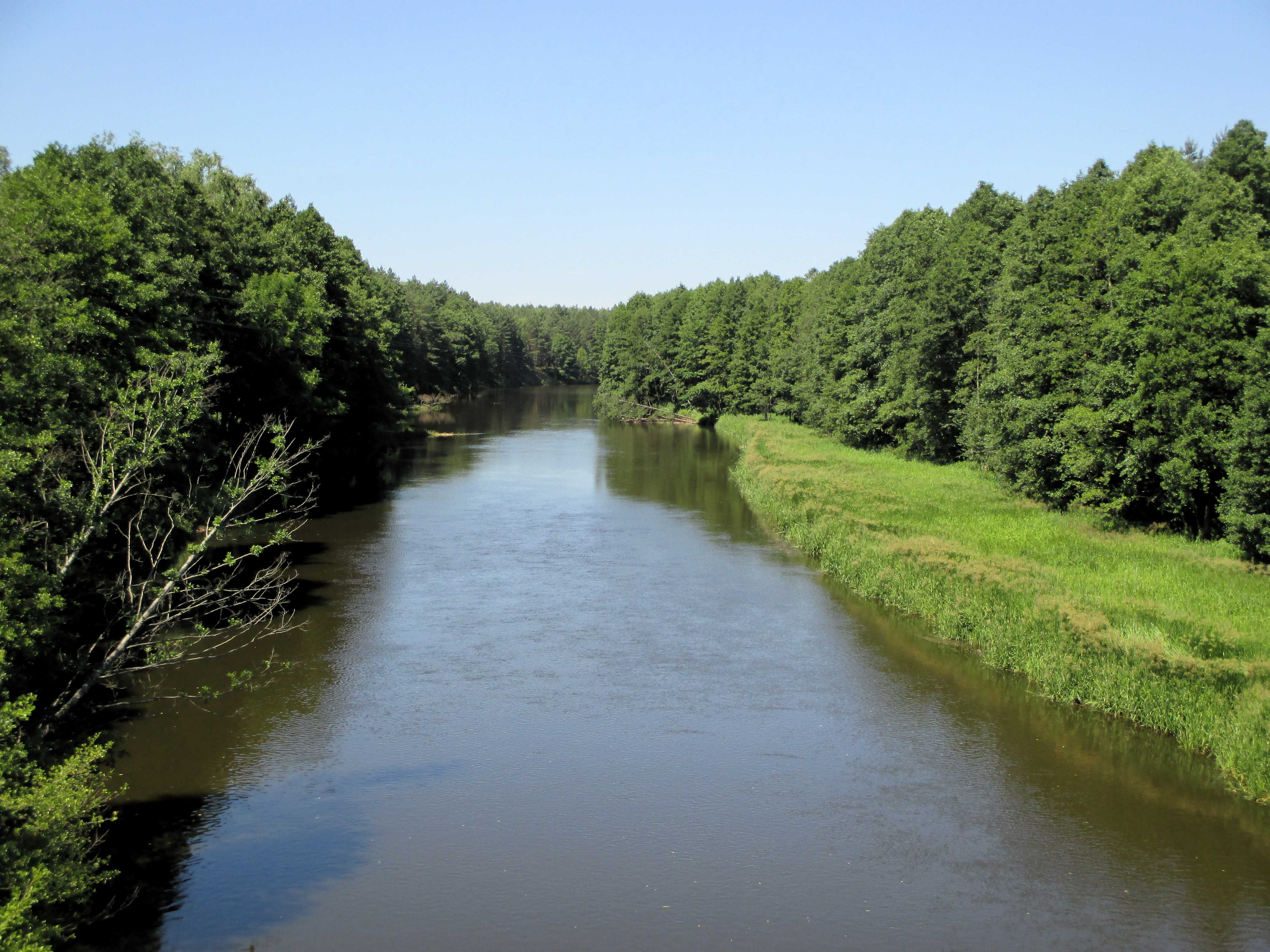 Ščara river in Masty District